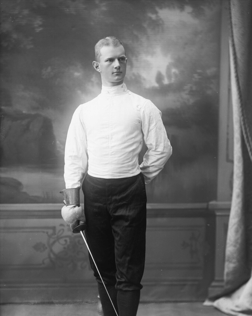 The Norwegian army officer Thorleiv Bugge Røhn in a fencing uniform.